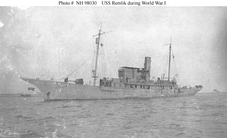 United States Navy patrol vessel USS Remlik (SP-157) during World War I